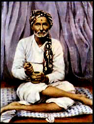 Umadikar maharaj